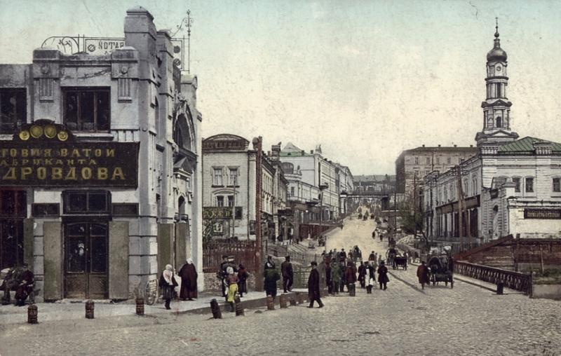 Kupechesky or Paschenkovsky Spusk in Kharkov. Russian Empire Postcard